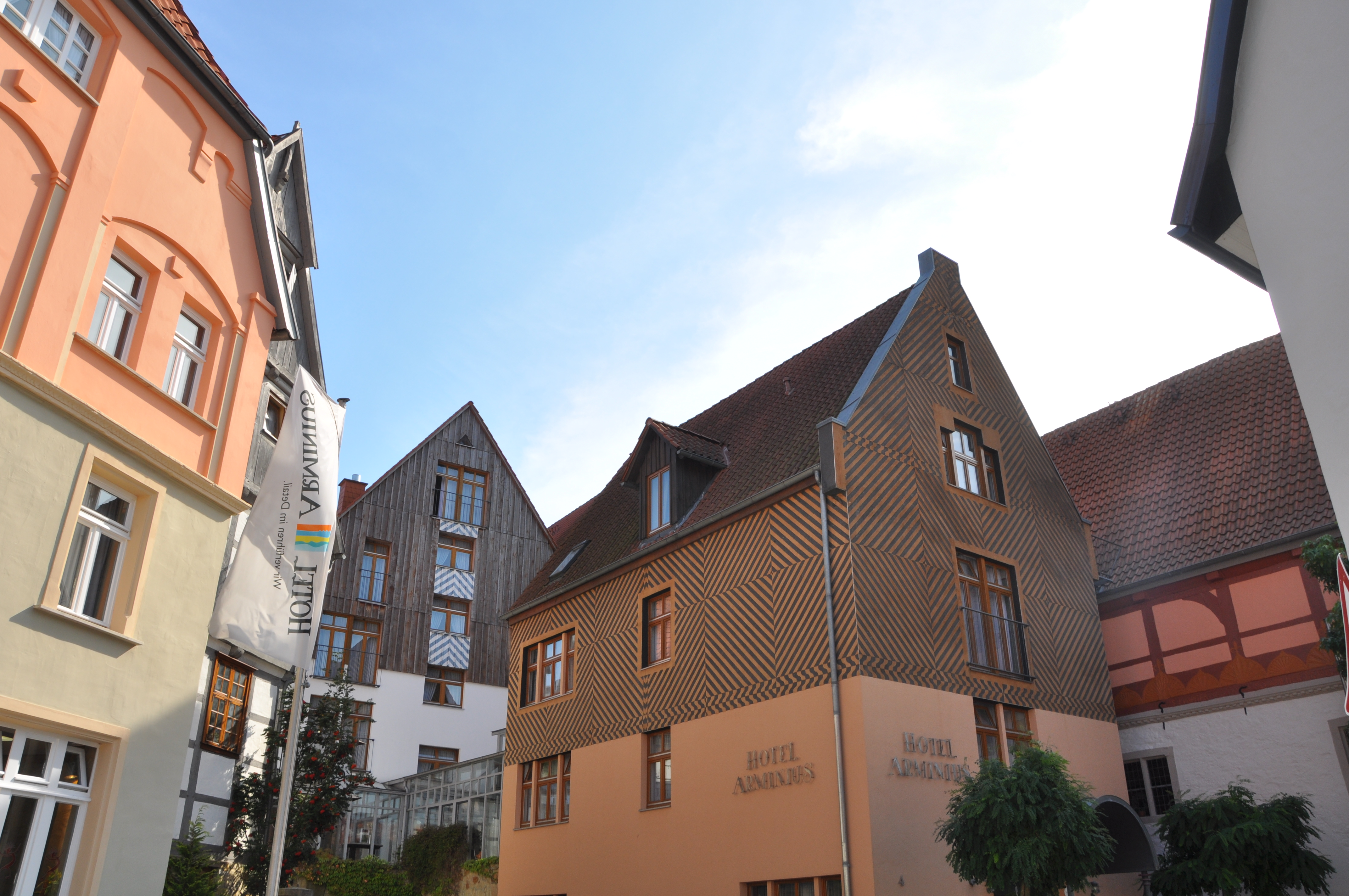 Historic timber-frame building in Germany built in the year 1577.